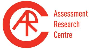 Logo of the Assessment Research Centre